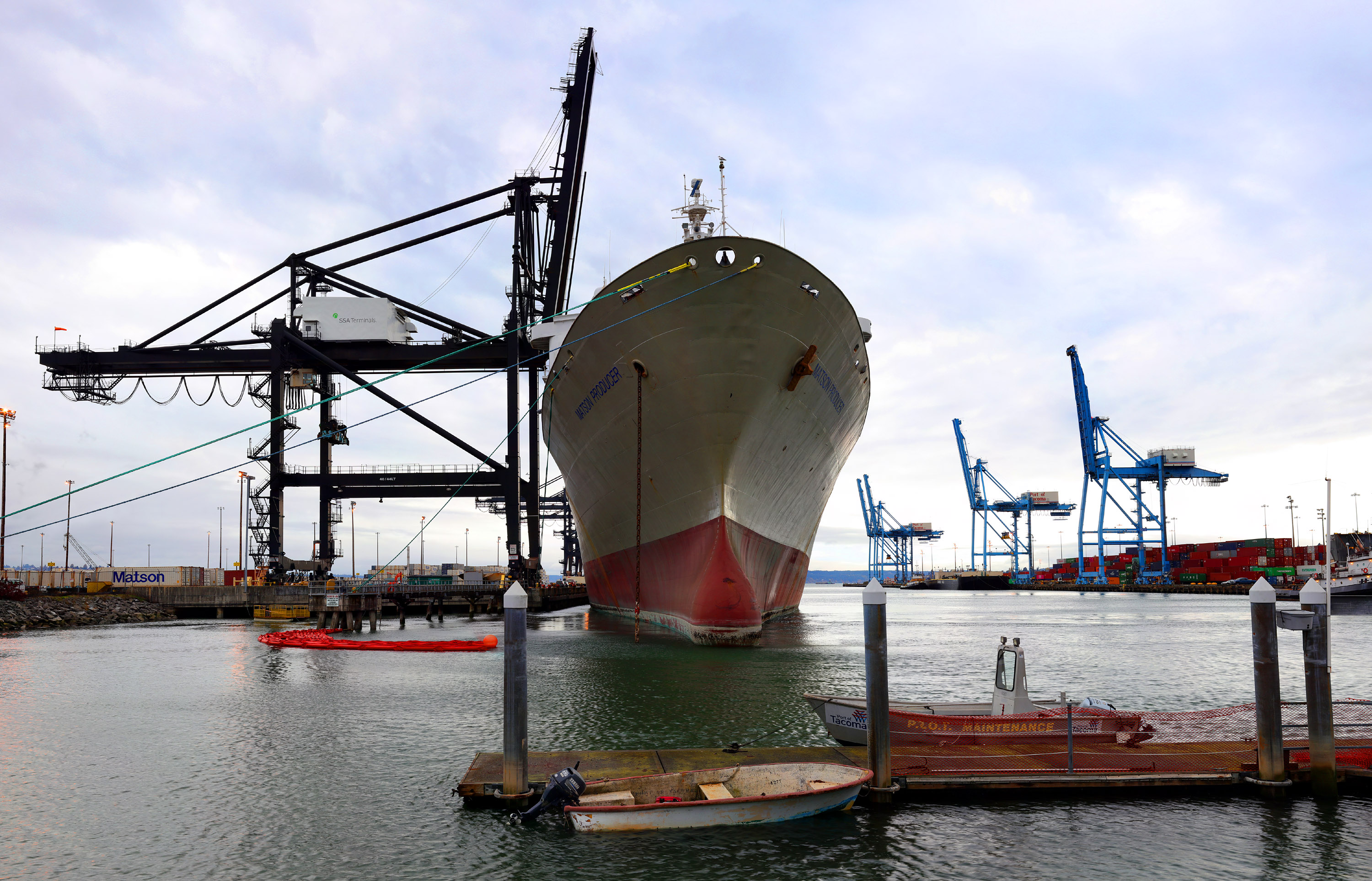 Matson Producer